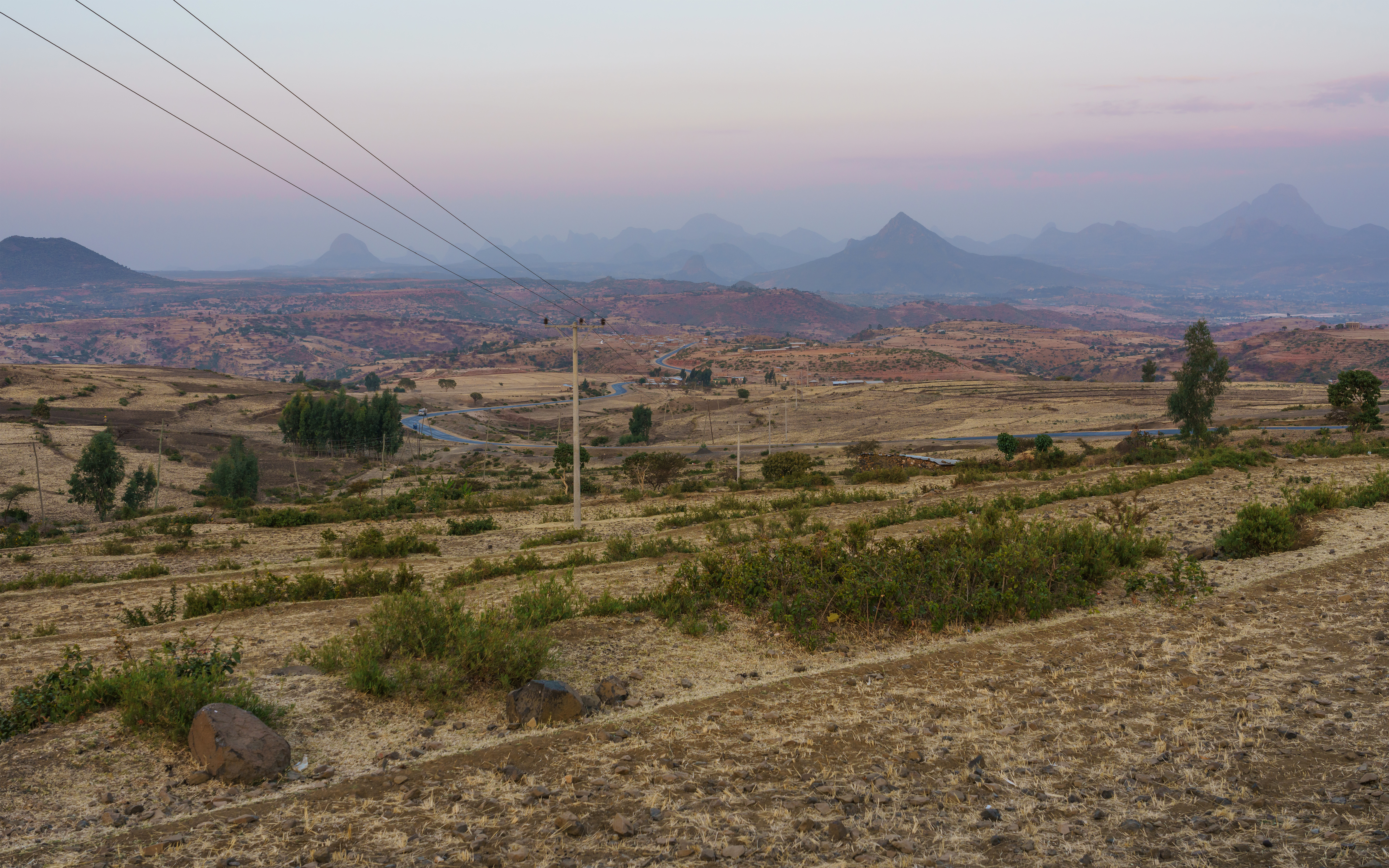 Site of the Battle of Adwa in Tigray Region, Ethiopia